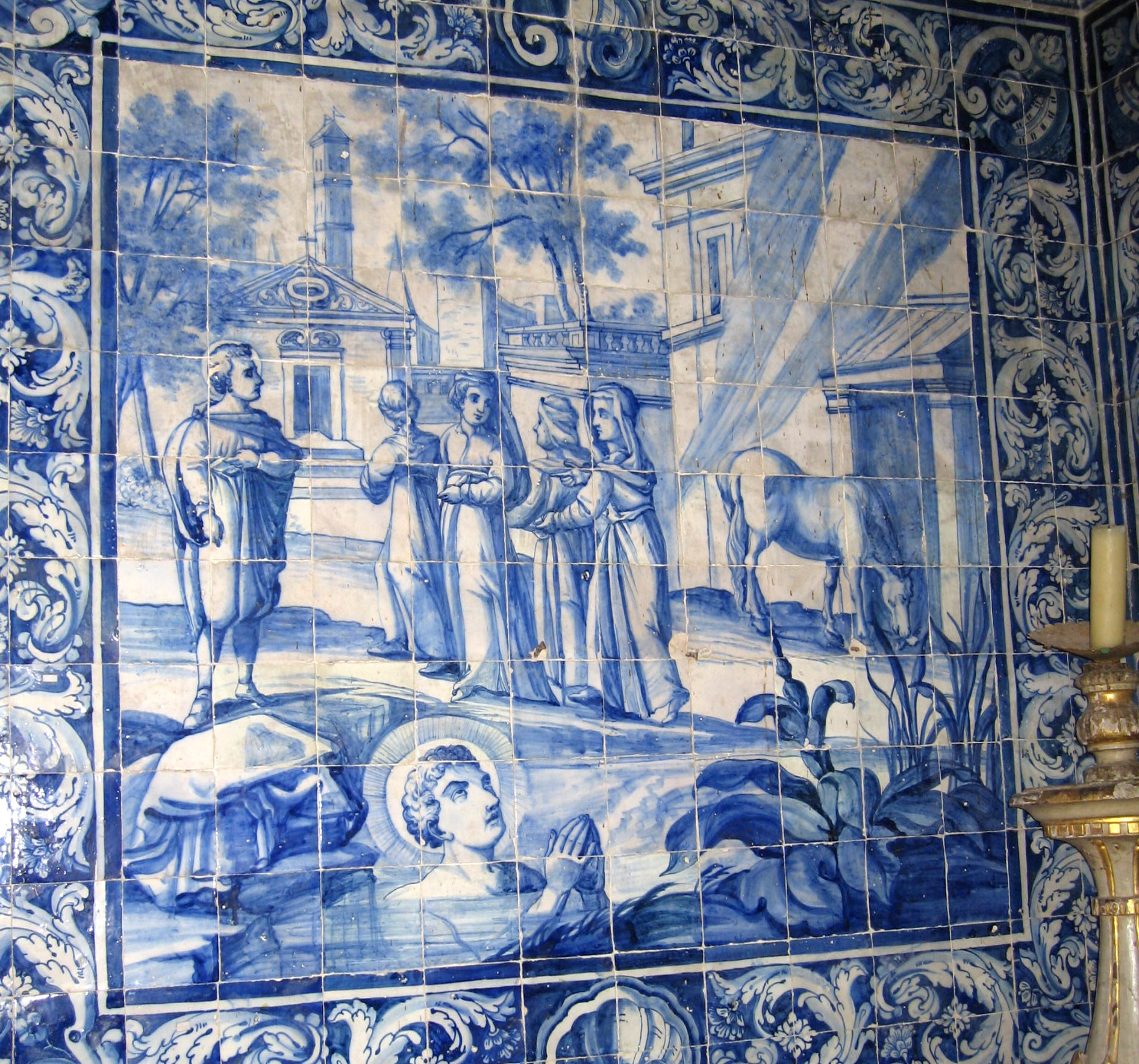 Alcobaça, Portugal, Monastery of Cos, sacristy, temptation of the holy Bernhard, 18th century